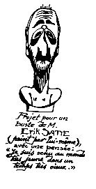 Erik Satie (selfportrait) The text reads (translated from French): Project for a bust of Mr. Erik Satie (painted by the same), with a thought: "I came into the world very young, in an age that was very old"